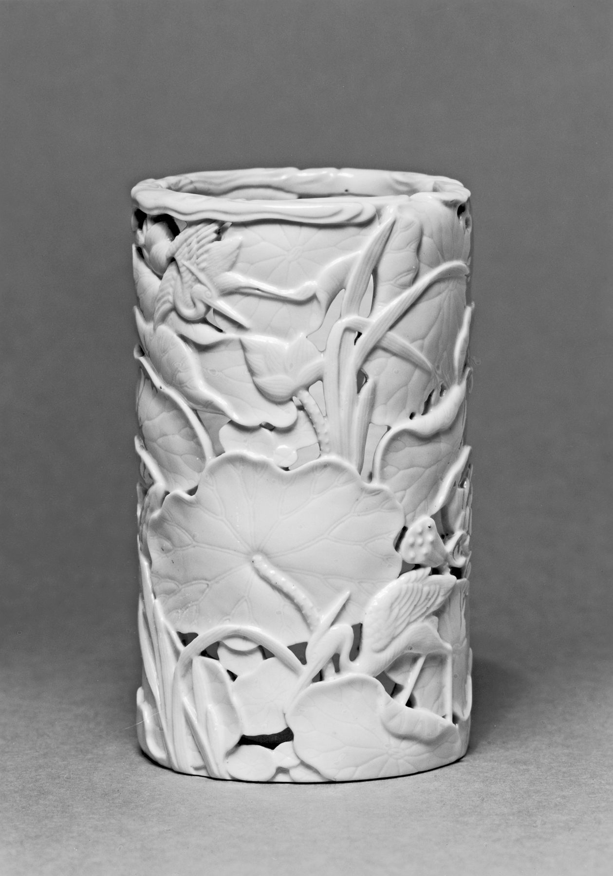 Dehua ware with design of carved cranes and lotuses worked into the paste.